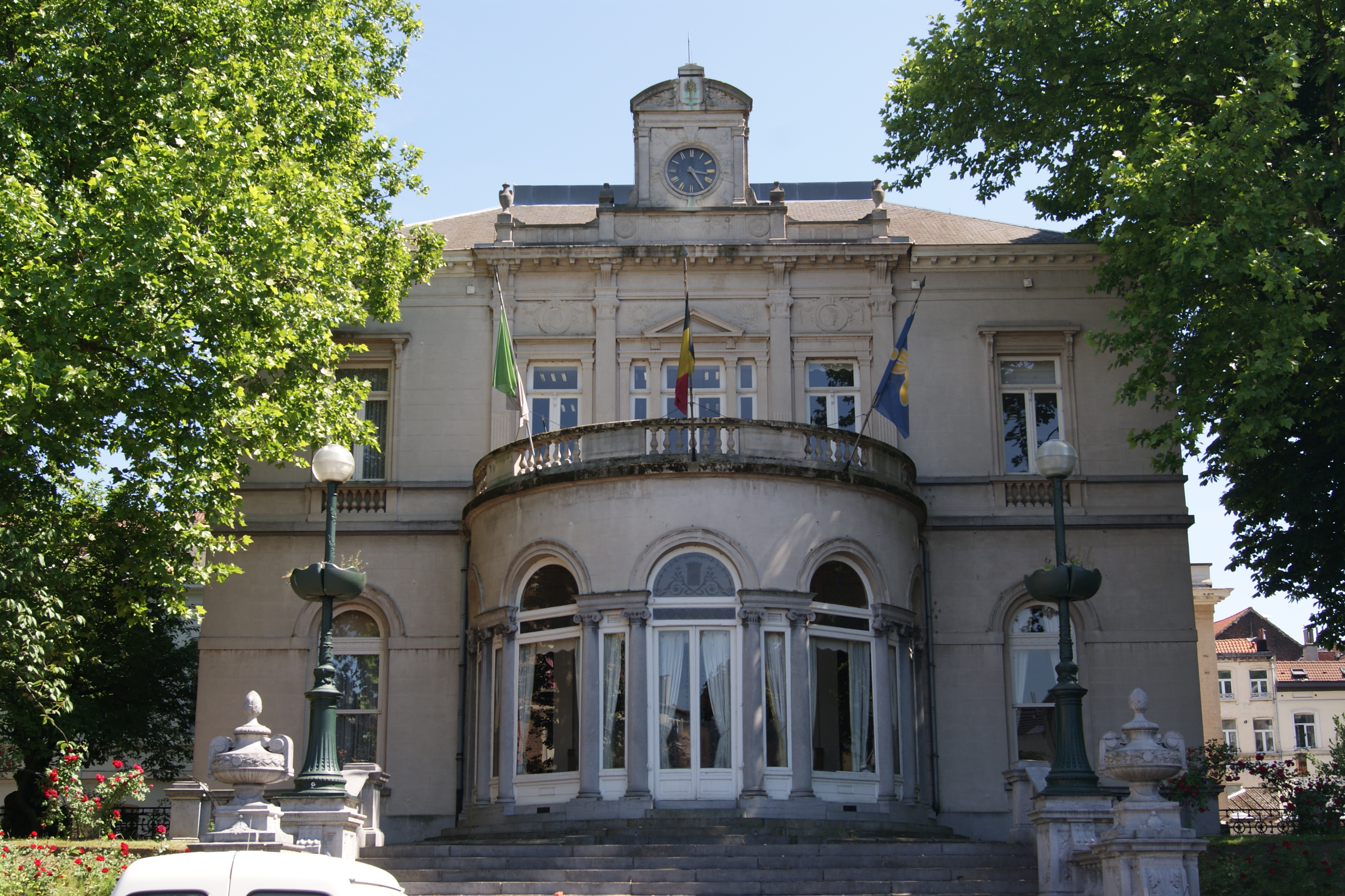 Town Hall Elsene~Ixelles (Brussels). Style: Neo-Classicism. Address: Chaussee D'Ixelles 168, Place Fernand Cocq 0, Ixelles, Brussels, Belgium.